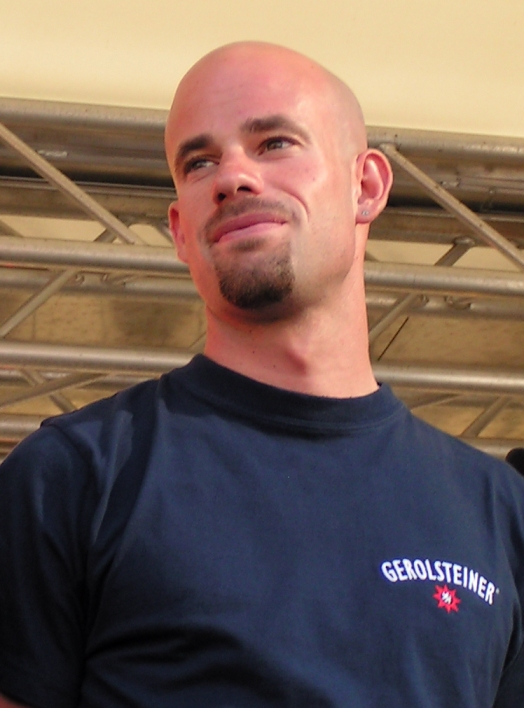 The German racing cyclist Stefan Schumacher at the team presentation for the Deutschland Tour 2006 in Düsseldorf, Germany.